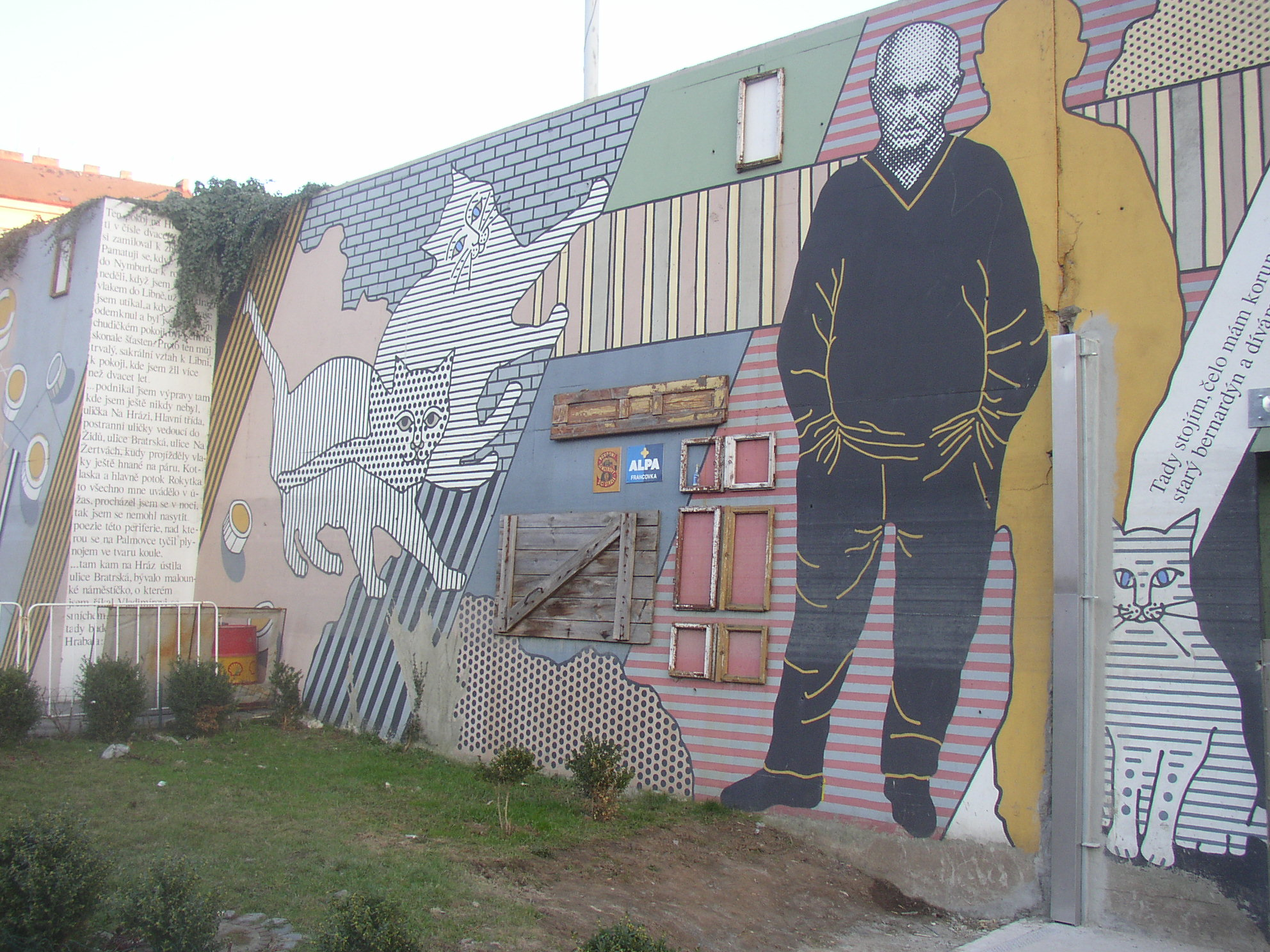 Czech writer Bohumil Hrabal among his beloved cats. Hrabalova zeď (Hrabal Wall), Libeň, Prague, Czech Republic This painting is located in the quarter, where Bohumil Hrabal used to live for a long time. photo taken by Miaow Miaow in March 2005